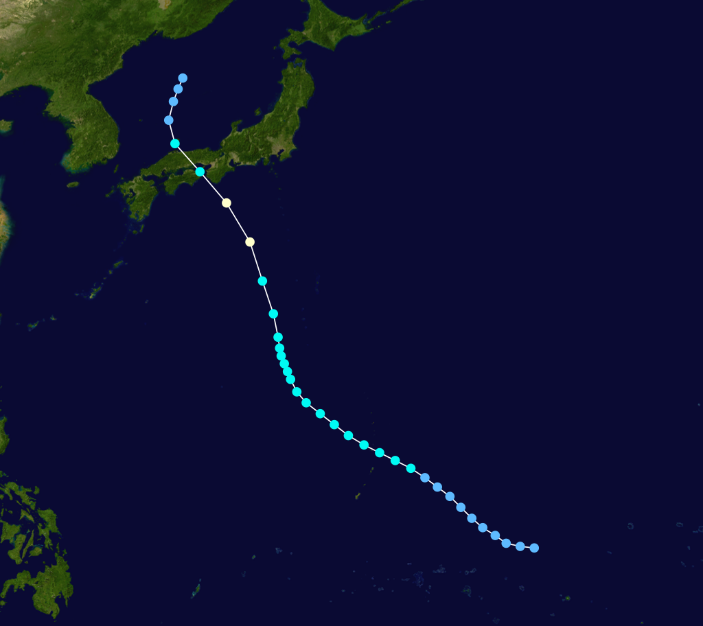 Typhoon Nathan 1993 track. Uses the color scheme from the Saffir-Simpson Hurricane Scale.